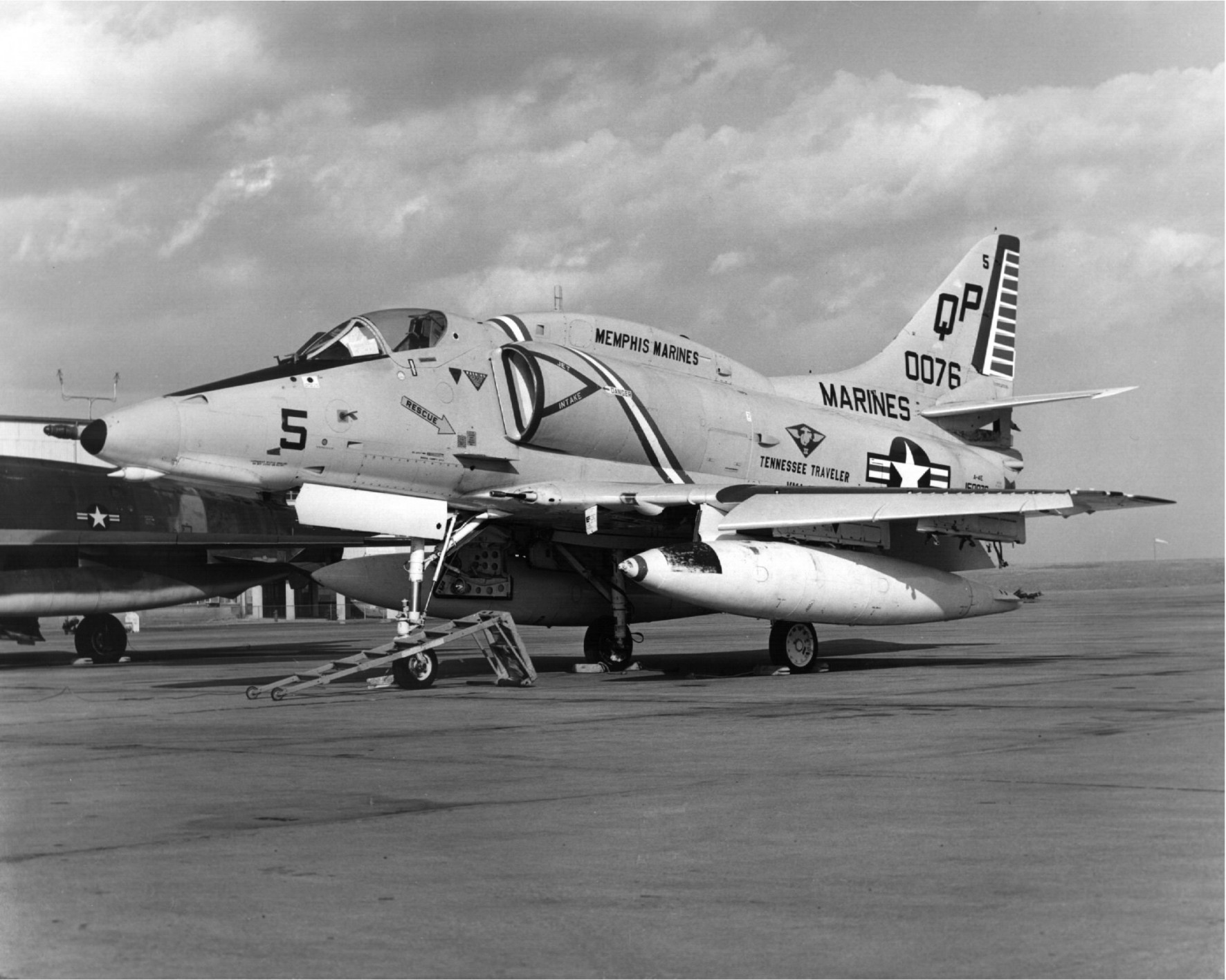 A Douglas A-4E Skyhawk (BuNo 150076) of Marine attack squadron VMA-124. VMA-124 was a squadron in the Marine Forces Reserve based at Naval Air Station Memphis, Tennessee (USA). Official NMNA text: "A-4E Skyhawk painted in the markings of the Blue Angels Flight Demonstration Squadron that hangs in the Flight Leader position of the diamond formation in the Blue Angel Atrium. Accepted by the U.S. Navy on 30 August 1963, this aircraft is the 1,466th production Skyhawk, and first served with Attack Squadron (VA) 43 at Naval Air Station (NAS) Oceana, Virginia. It was the first of many tours with East Coast attack squadrons, its service including stints with VA-72, VA-81, and VA-44 during which it deployed in the carriers Independence (CVA-62), Forrestal (CVA-59), and Shangri-La (CVA-38). In 1967, the demands of the Vietnam War shifted the museum's aircraft to the Western Pacific, a brief stint with VA-195 at NAS Lemoore, California, followed by assignment to VA-94 in December 1967. The following year, the aircraft flew combat missions over Vietnam from the deck of Bon Homme Richard (CVA-31), and in 1969 it logged more missions from Oriskany (CVA-34) while serving in VA-195. The aircraft's last combat service was destined to be from land. After joining Marine Attack Squadron (VMA) 211 in December 1970, it deployed with the squadron to Marine Corps Air Station (MCAS) Naha, Okinawa, in 1971, and was soon in country flying missions from Bien Hoa, Republic of Vietnam. The aircraft finished its service with VA-127 at NAS Lemoore and arrived at the museum in 1990. Although it never itself flew with the team, BuNo 150076 is marked with the bureau number (154180) of an aircraft once flown by the Blues."